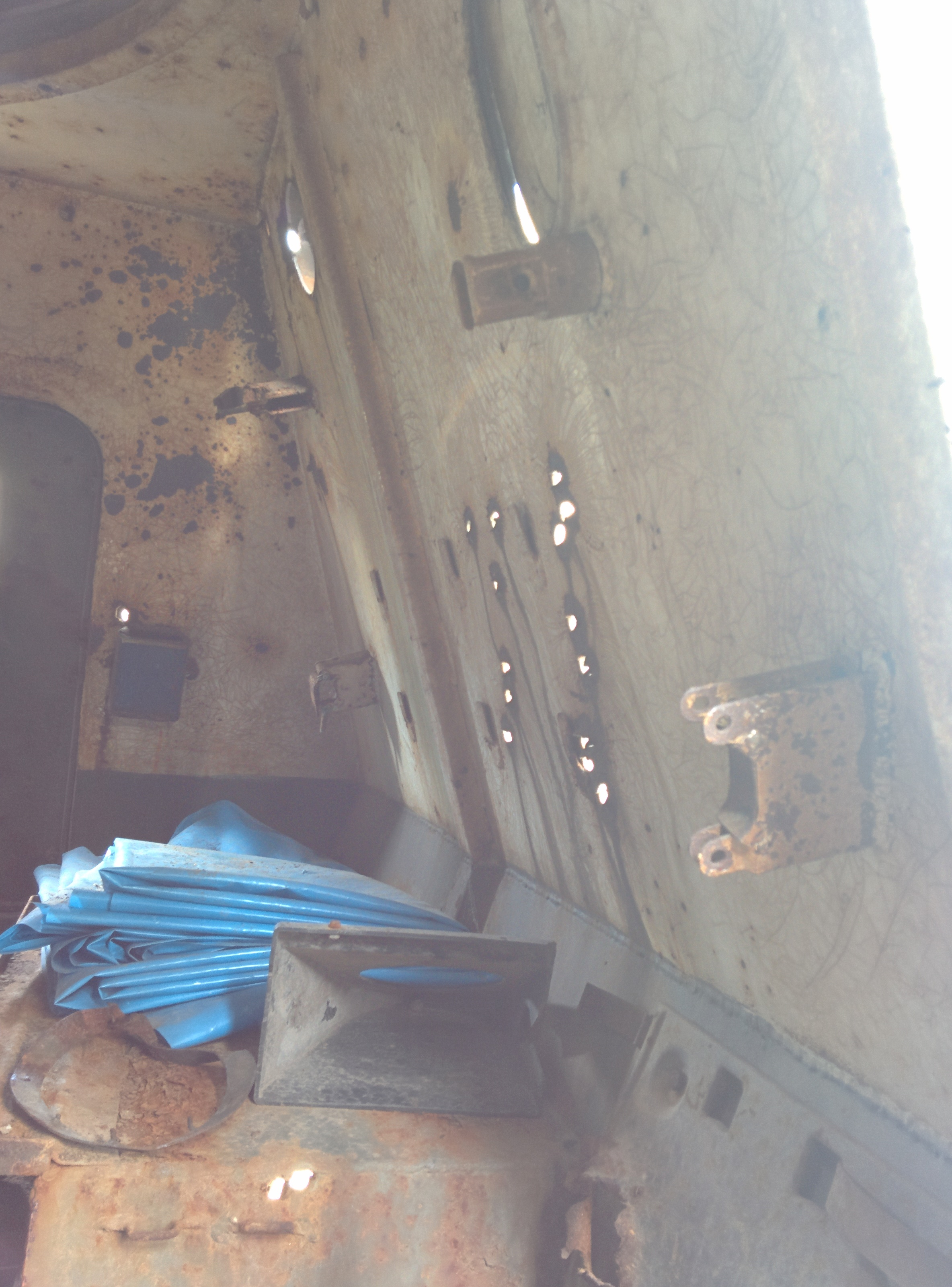 ABI 100 (Autovehicul Blindat pentru Intervenție) armoured car on display at King Ferdinand National Military Museum, Bucharest. Built at S.C Uzina Automecanica Moreni S.A., it was based on the ARO 240.